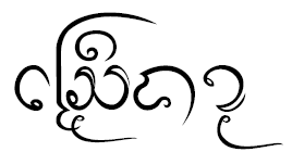 Lanna script – Soem Ngam is a district (amphoe) in the western part of Lampang Province, northern Thailand.